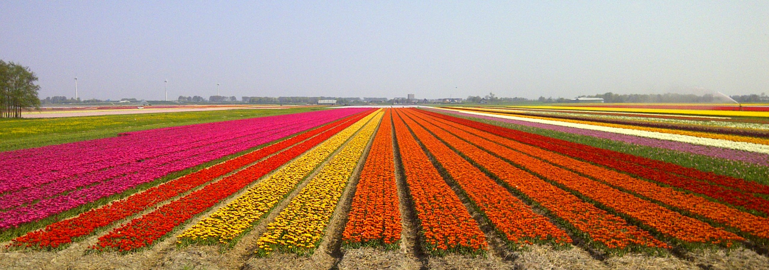 Tulip fields in Zuidschermer, North Holland, The Netherlands.